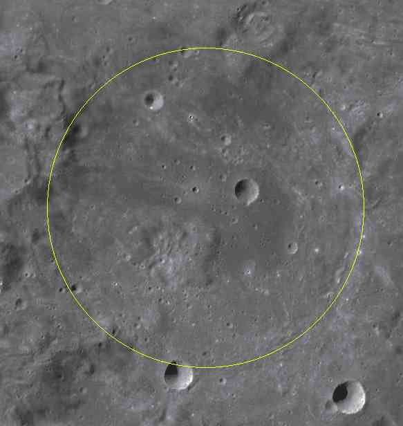 Piazzi lunar crater - part of the chart LAC-109